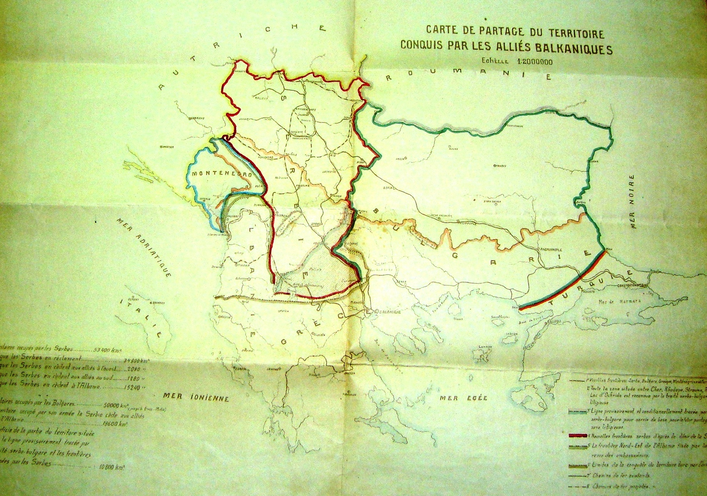 A map proposal for partition of Macedonia. (15 May 1913) This media file is produced by Wikipedian in Residence in Category:Wikipedian in Residence at DARM in 2016.